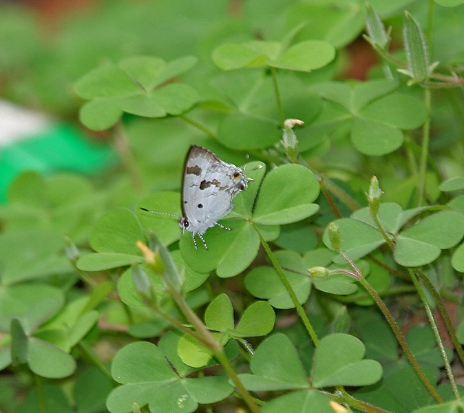 Orchid Tit Chliaria othona on Oxalis species (and not Oxalis orientalis) at Jayanti in Buxa Tiger Reserve in Jalpaiguri district of West Bengal, India.